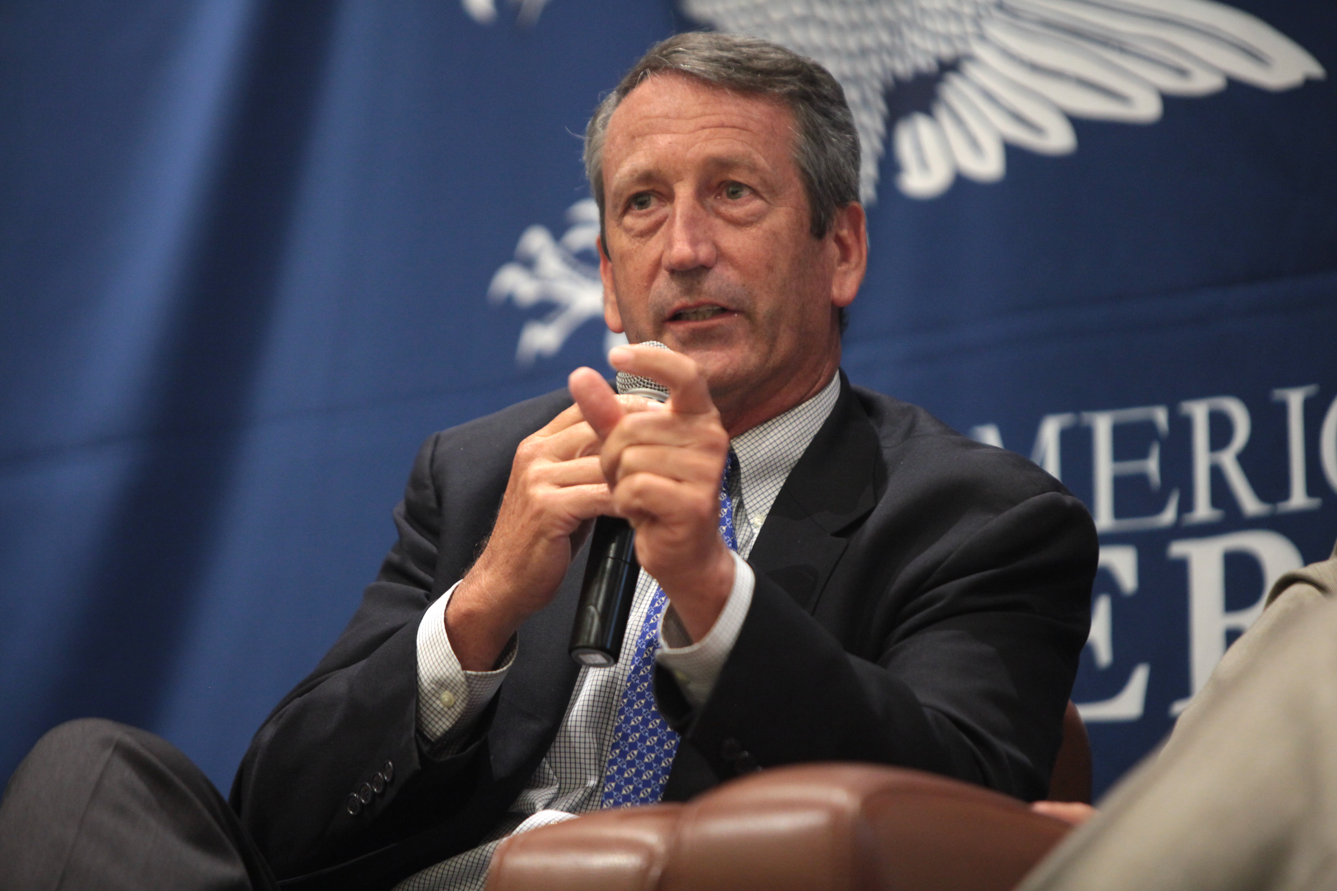 U.S. Congressman Mark Sanford speaking at the 2015 Young Americans for Liberty National Convention at the Catholic University of America in Washington, D.C.